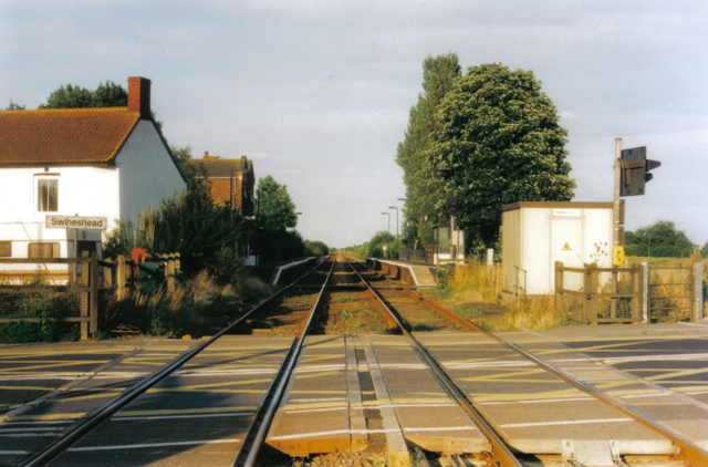 Railway Station and crossing, Swineshead, Lincs. Level crossing at Swineshead Bridge and station beyond; looking 'down' towards Boston.